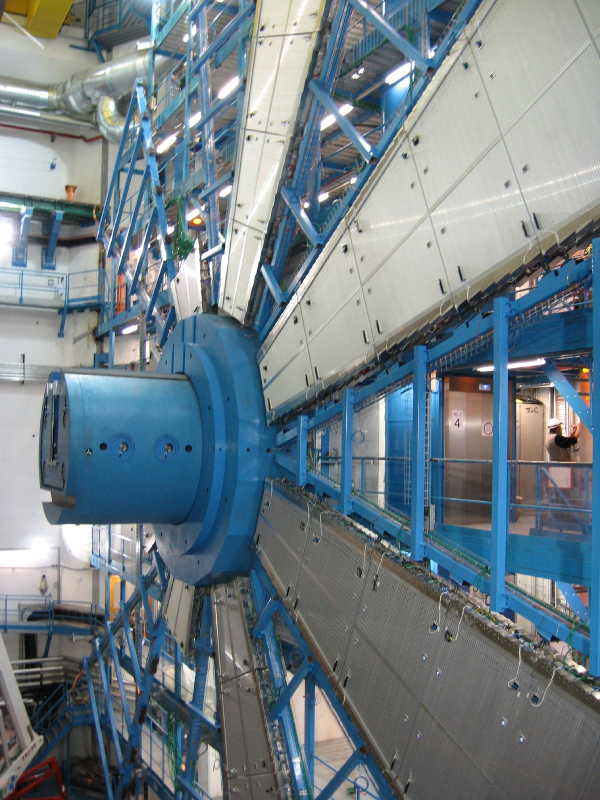 ATLAS MDT chambers (big wheel side C) for muon detection.